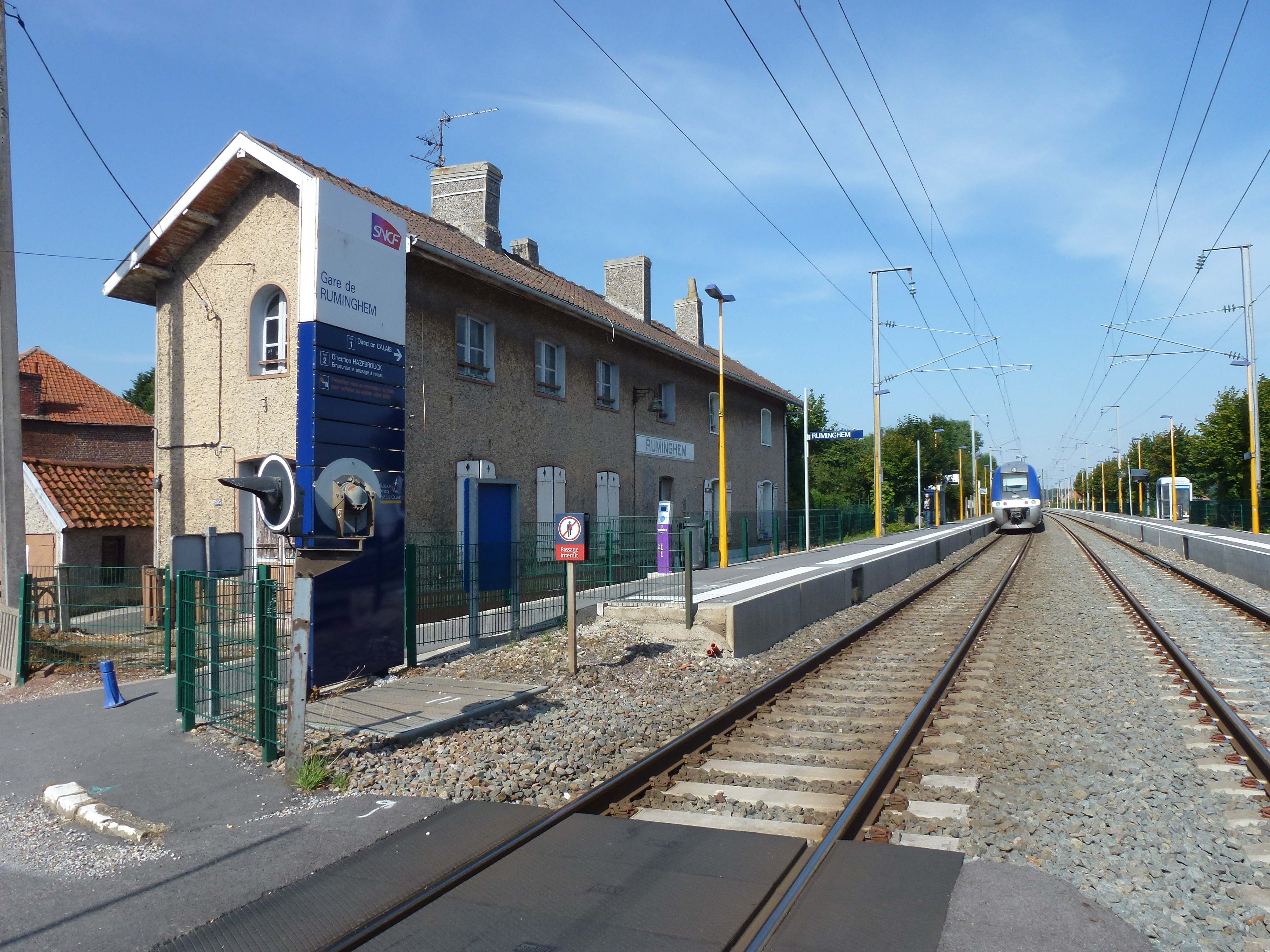 Ruminghem (Pas-de-Calais) la gare